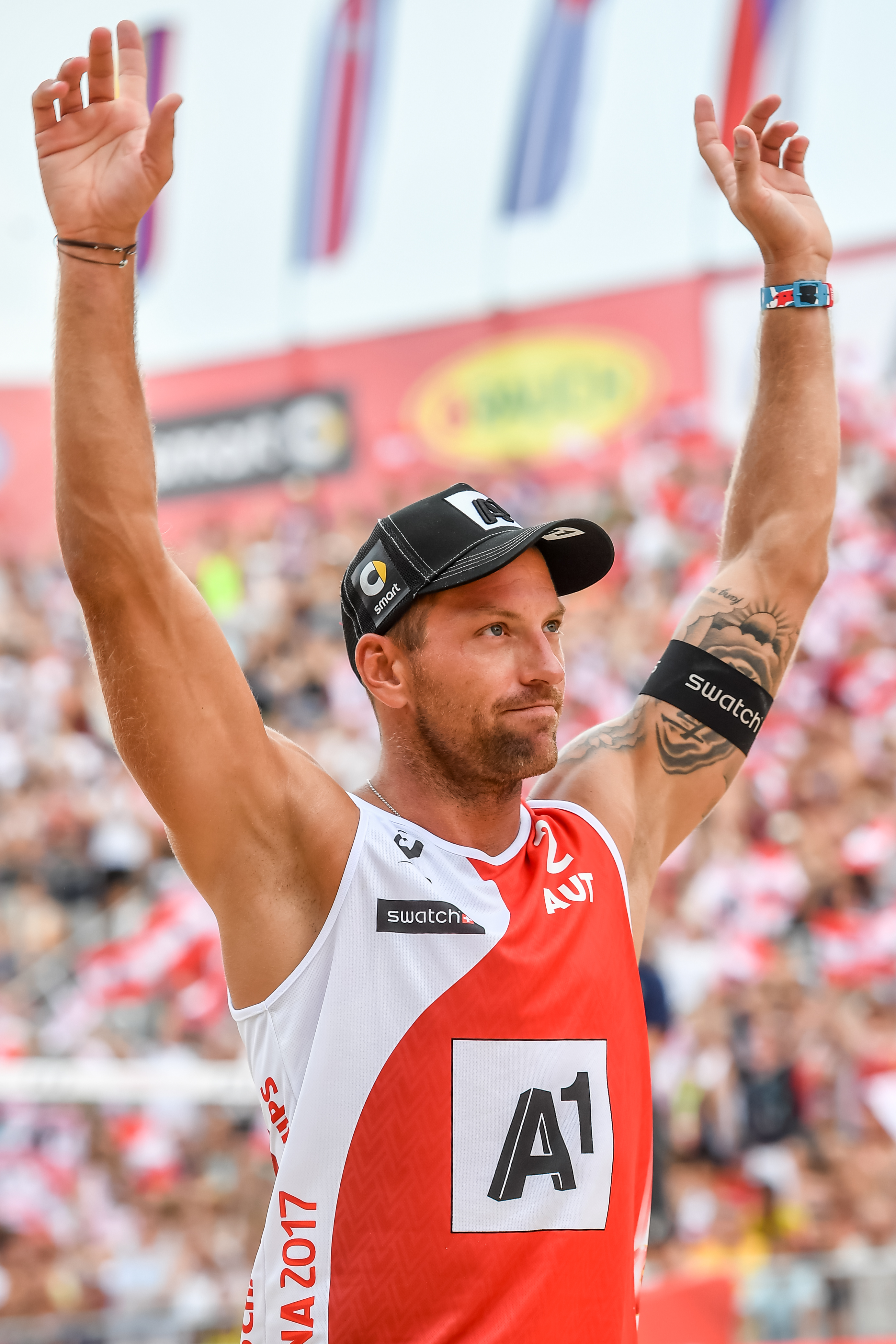 30/7/17, Vienna, Austria, sports, beach volleyball, FIVB Beach Volleyball World Championships.